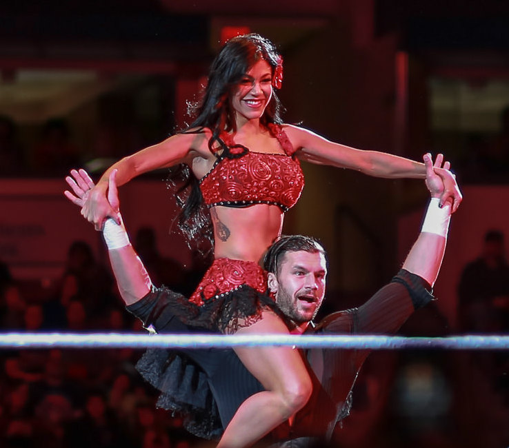 Fandango (bottom) and his valet Rosa Mendes at a WWE show in February 2015. Cropped from original.